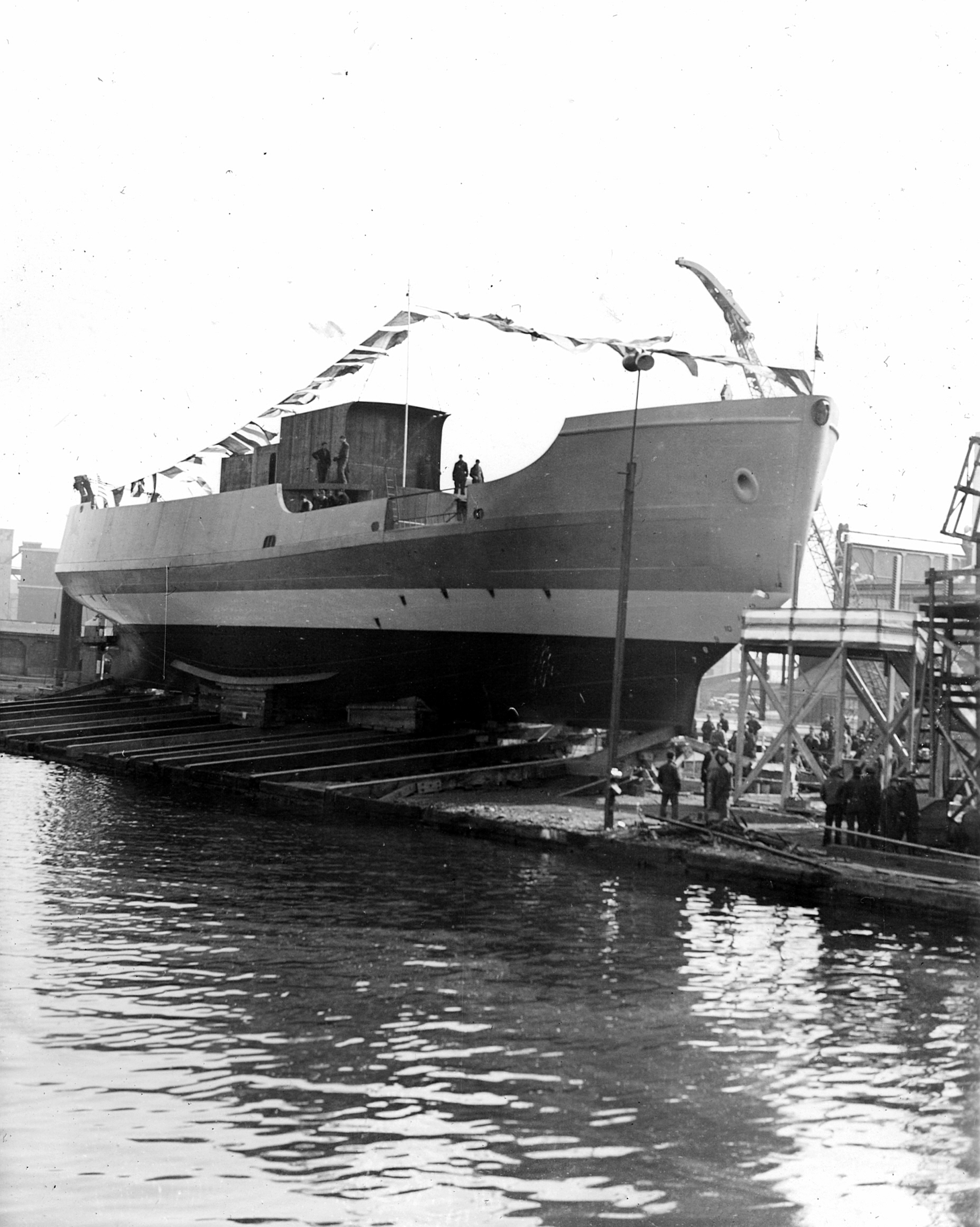 USCGC Balsam launching at Duluth, Minnesota in April 1942